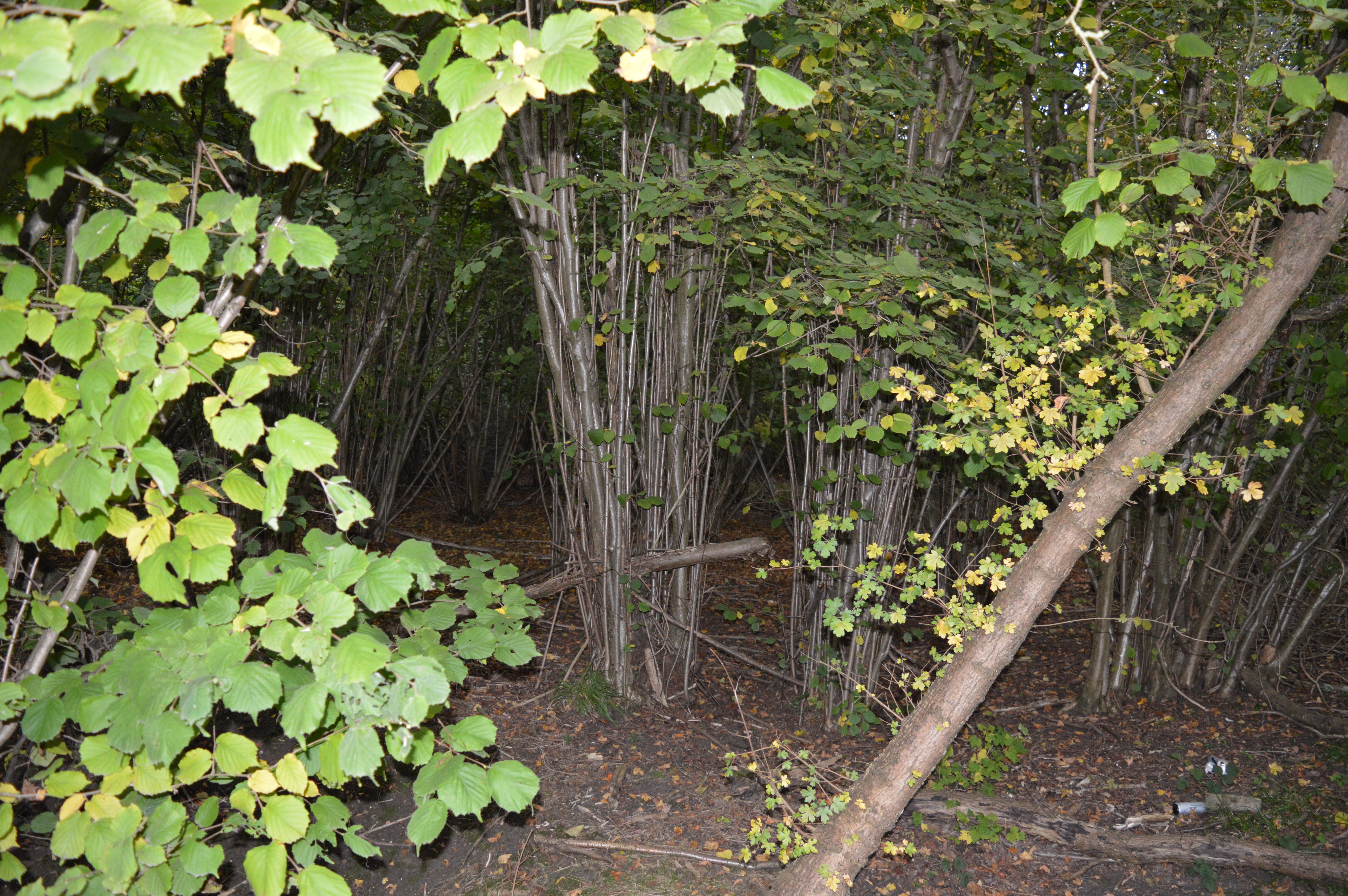 Eastend Wood, part of Elsenham Woods Site of Special Scientific Interest in Elsenham, Essex